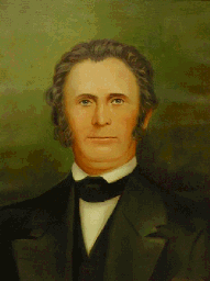 Charles Polk, Jr. of Delaware (1788-1857) Courtesy of Delaware Department of State, Division of Historical and Cultural Affairs. Collection of the Delaware State Museums.